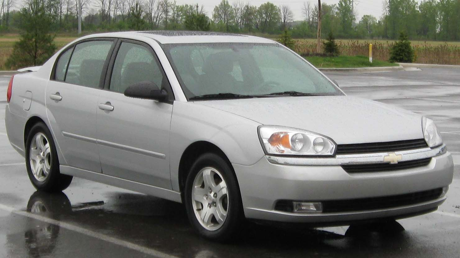 2004-2005 Chevrolet Malibu photographed in Maumee, Ohio, USA.